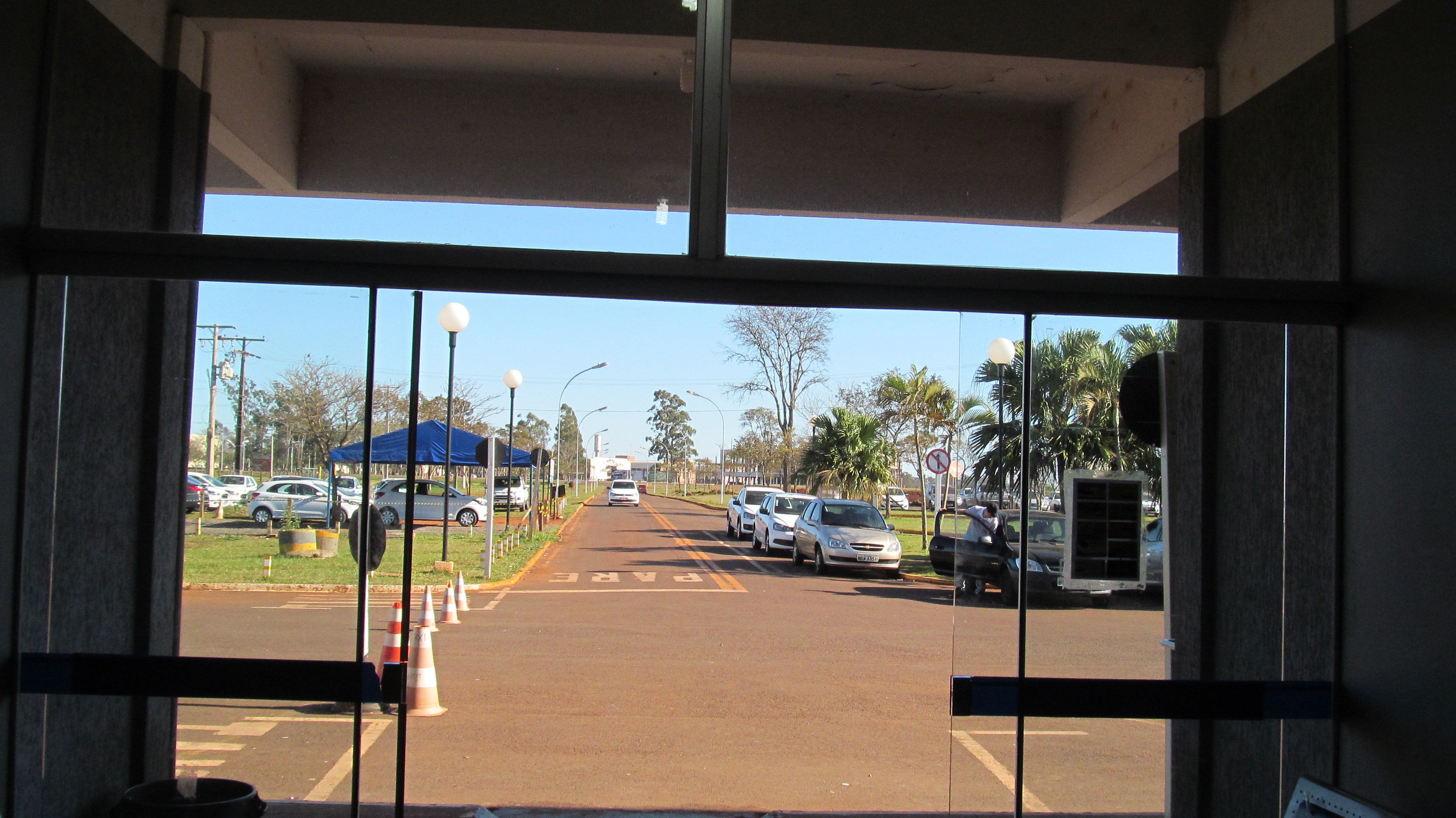 Dourados Airport (DOU) access way, Mato Grosso do Sul, Brazil